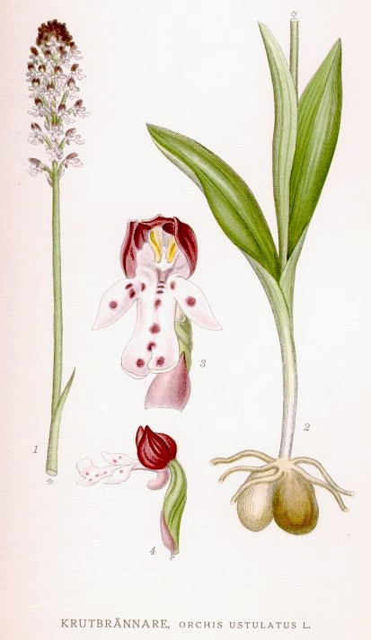 Orchis ustulata L. Original Description Krutbrännare, Orchis ustulatus L.